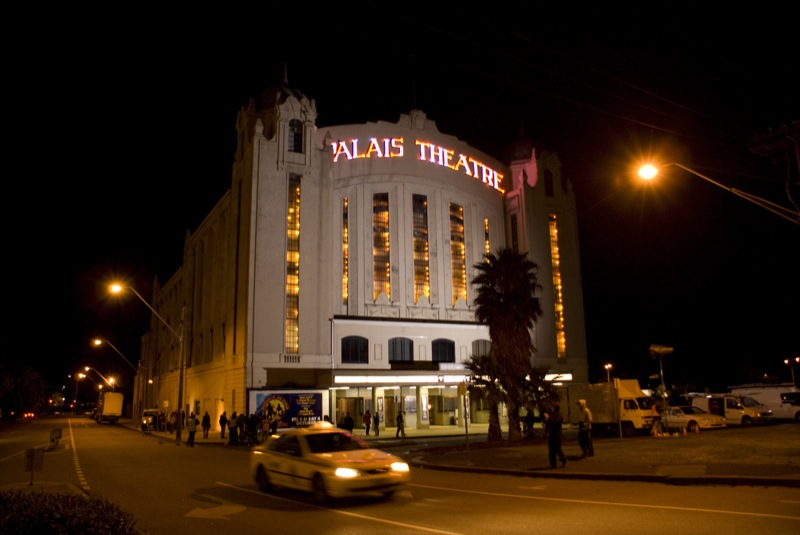 A theatre pictured at night with a car passing by in front of the exterior.